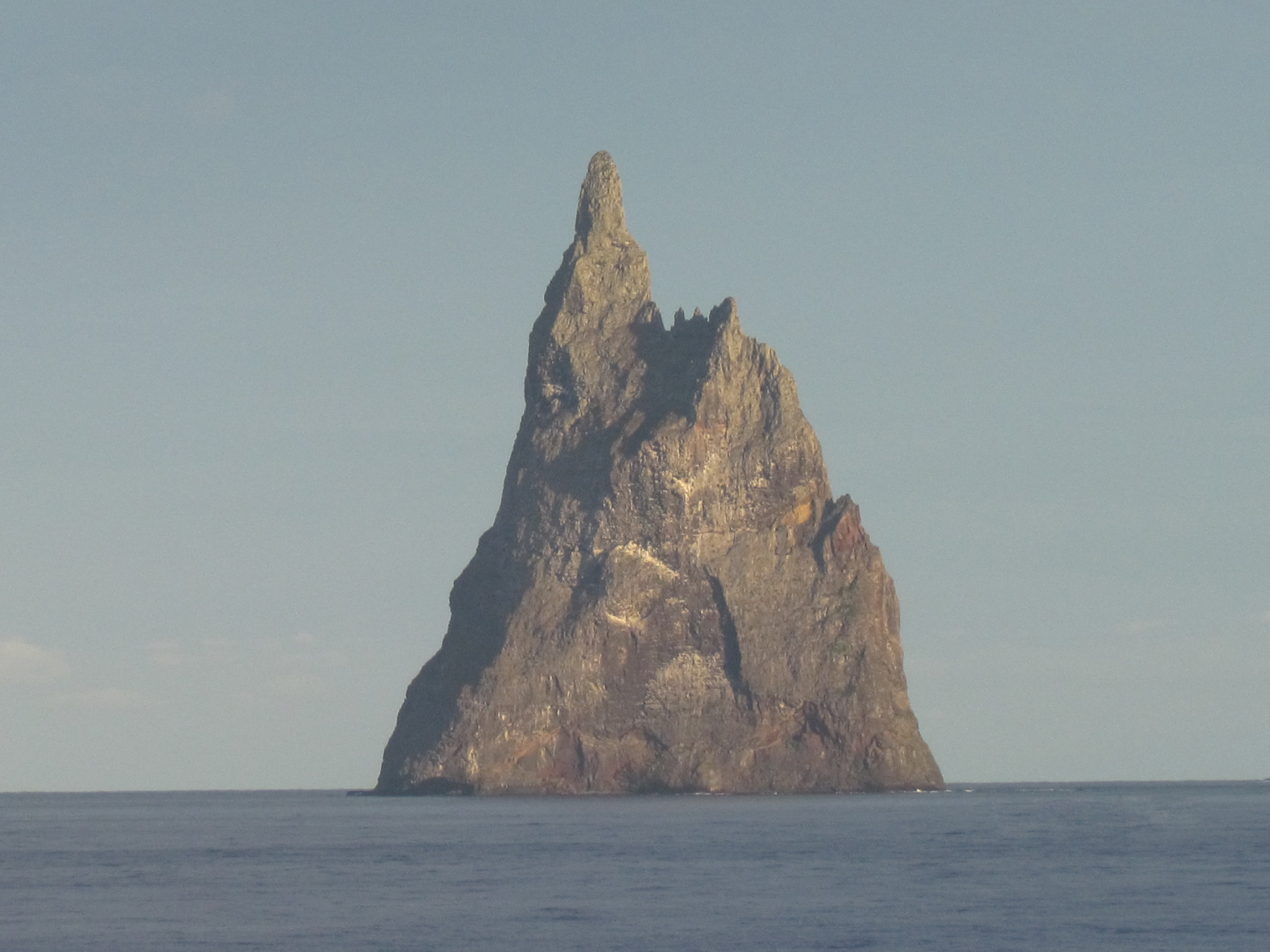 Balls Pyramid is a rocky pinnacle near Lord Howe Island